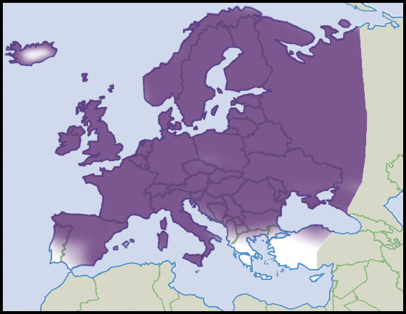 Vitrina pellucida (Müller, 1774). Distribution in Europe, scientific state of knowledge of 2012. Source description in English. Light colour indicated rare occurrences or regions where the species could eventually be expected to occur. Dark colour indicated relatively reliable occurrences, as well as regions where the species was expected to occur, and where the species was not known to be extremely rare. Dark colour indications were not necessarily based on published records. Species summary in AnimalBase